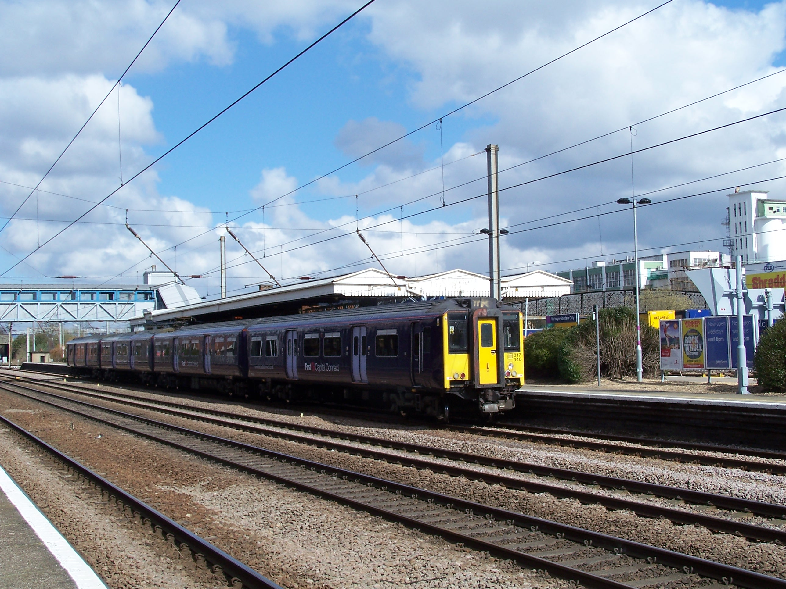 317340 calls at Welwyn Garden City, with a southbound service for London Kings Cross